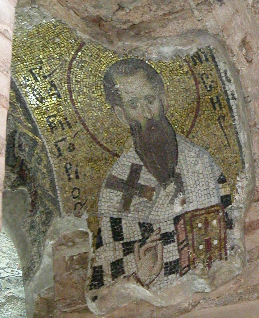 Gregory of Nyssa